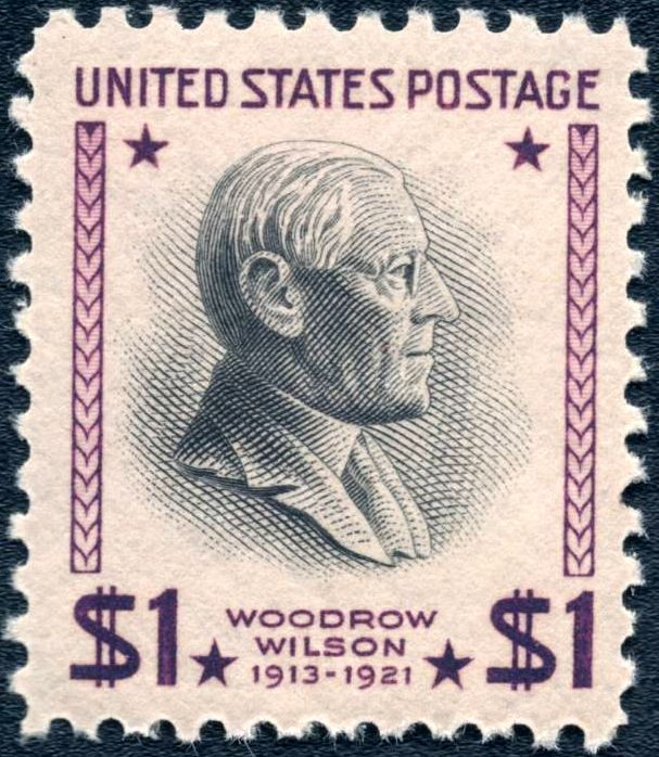 US Postage stamp: Woodrow Wilson